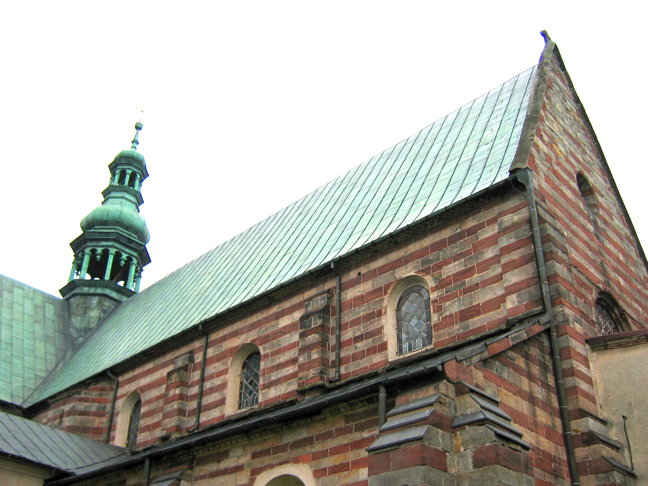 Cisterian monastery in Wąchock, Poland